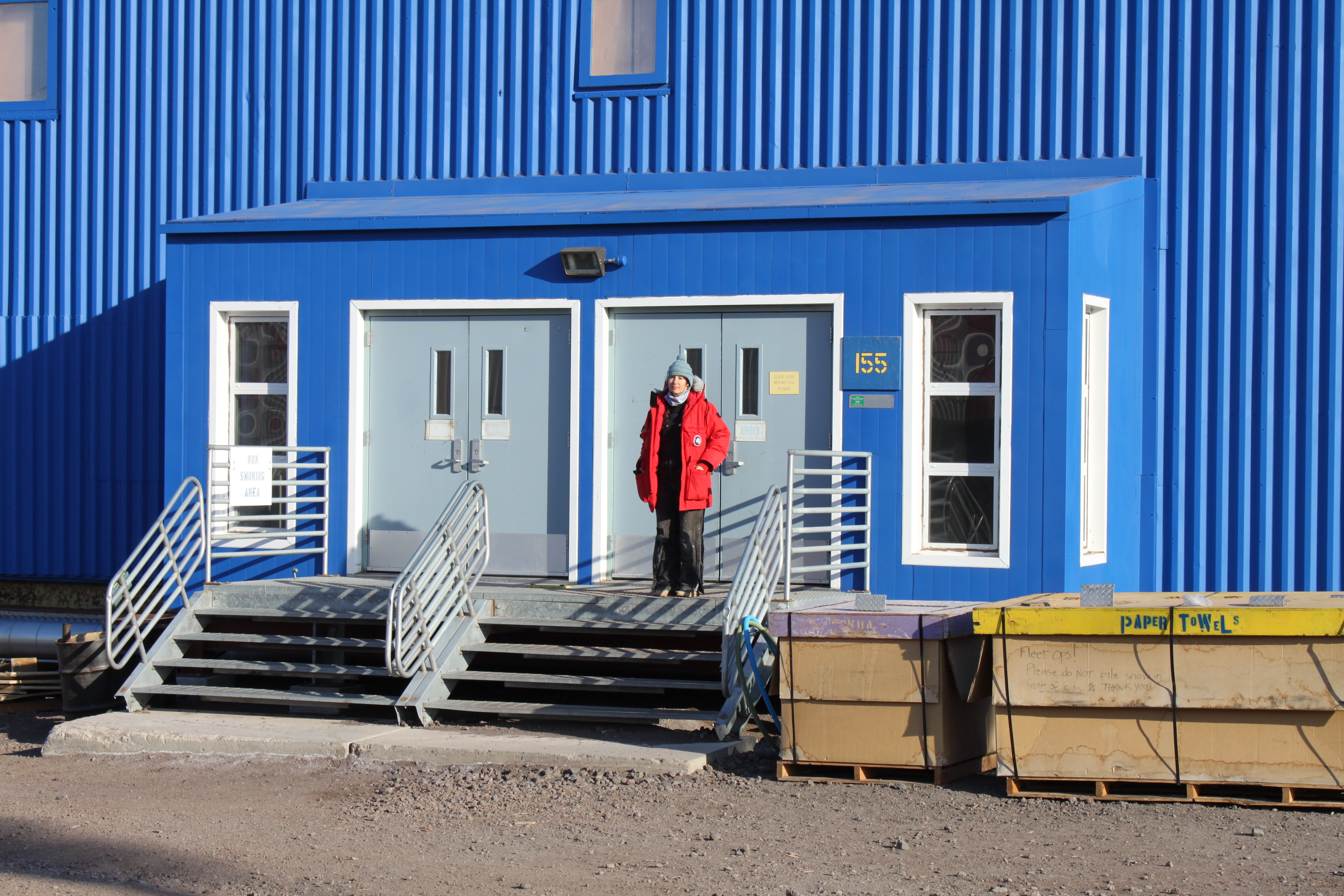 Antarctica: The New Shade of 155